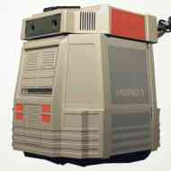 Hero-1 Roboter